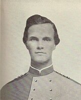 Benjamin Franklin Stringfellow as a young man